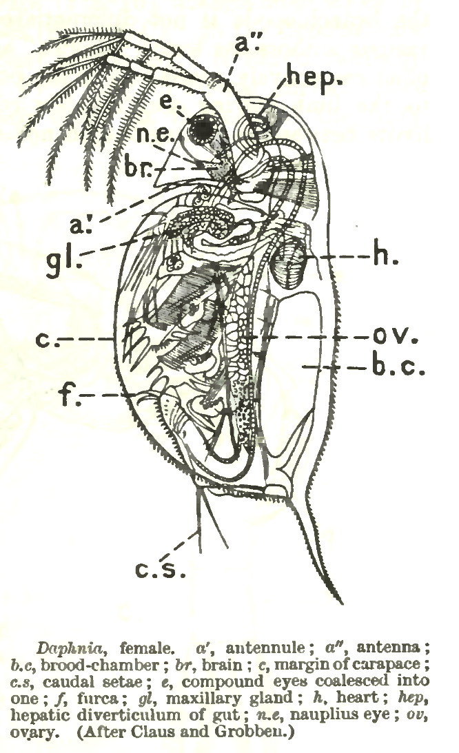 general Bauplan of Daphnia species